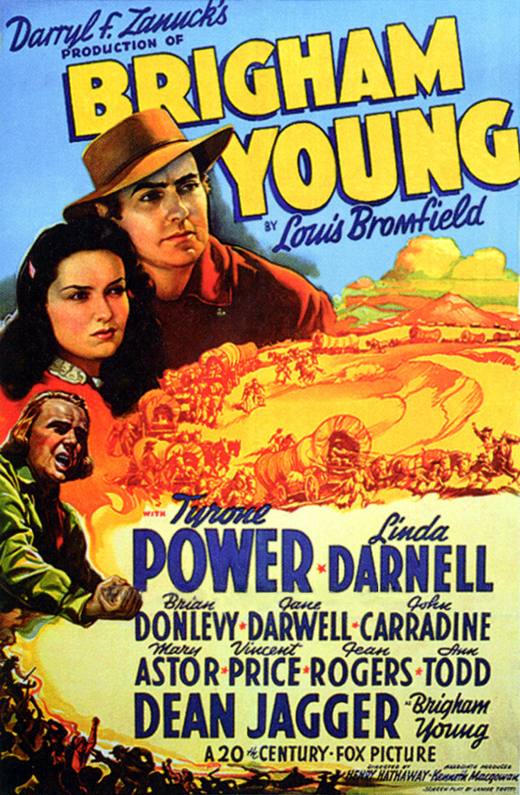 Poster - Brigham Young - Directed by Henry Hathaway (1940), with Tyrone Power, Linda Darnell and Dean Jagger